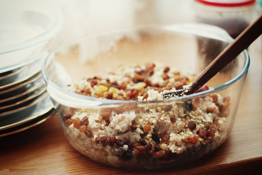 In Ukraine we celebrate Christmas on 7th January, and before it ve have Holy Eve. This is Kutia - traditional sish which everyone cooks on Holy Eve. It is sweet :) (nuts,honey, poppy,water,raisins,wheat etc.)